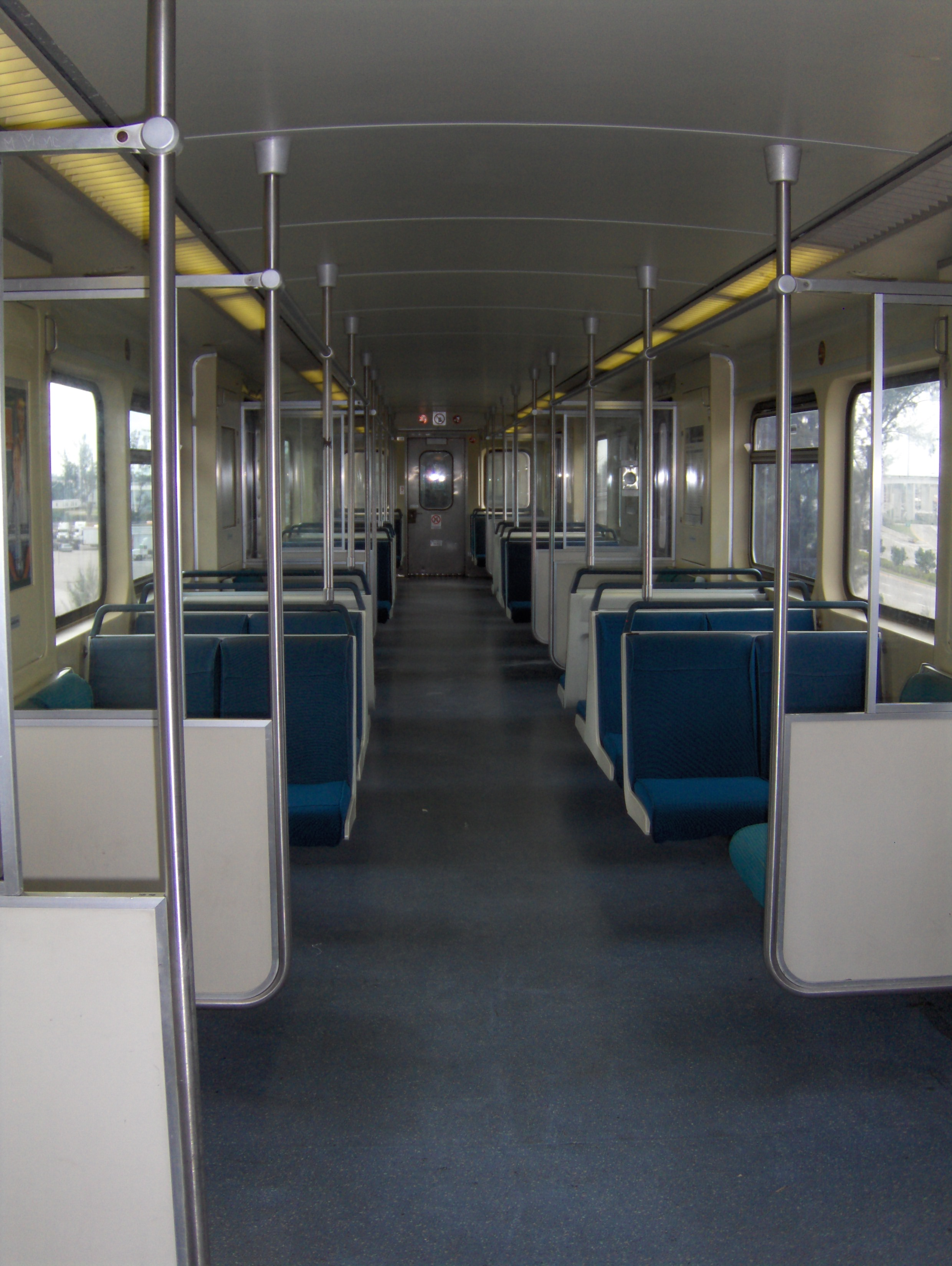 Empty Miami Metrorail car